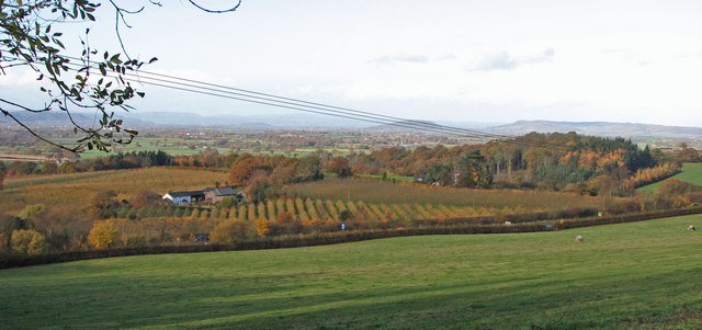 Hill Farm Taken from the edge of Kingsthorne Field